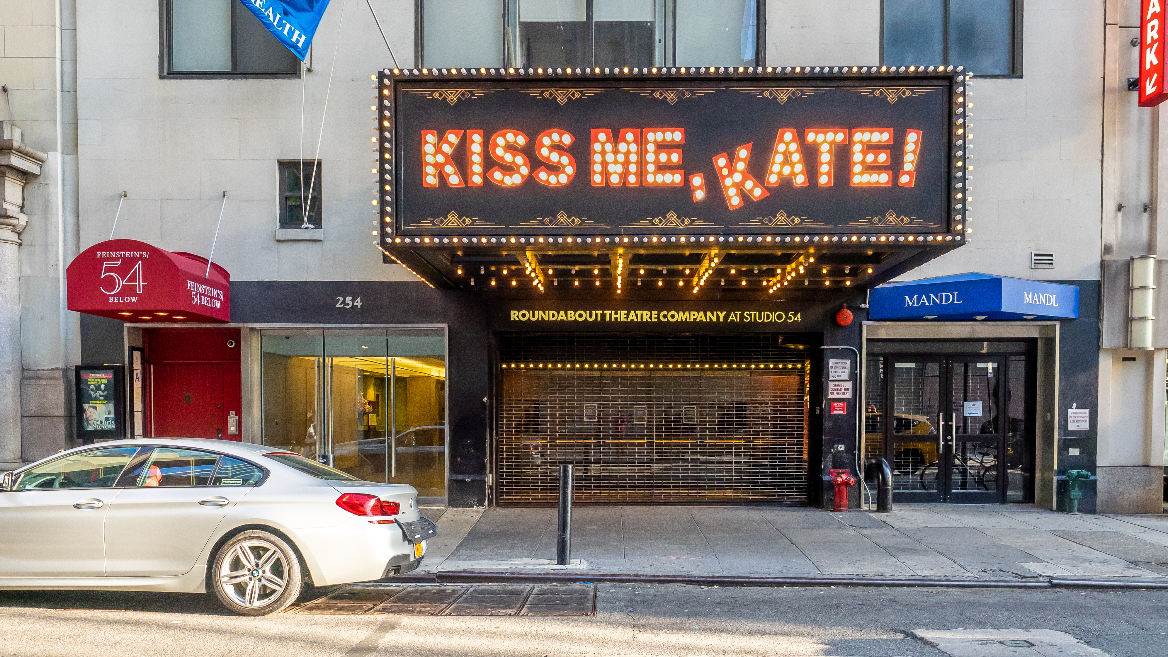 Midtown Manhattan, New York City